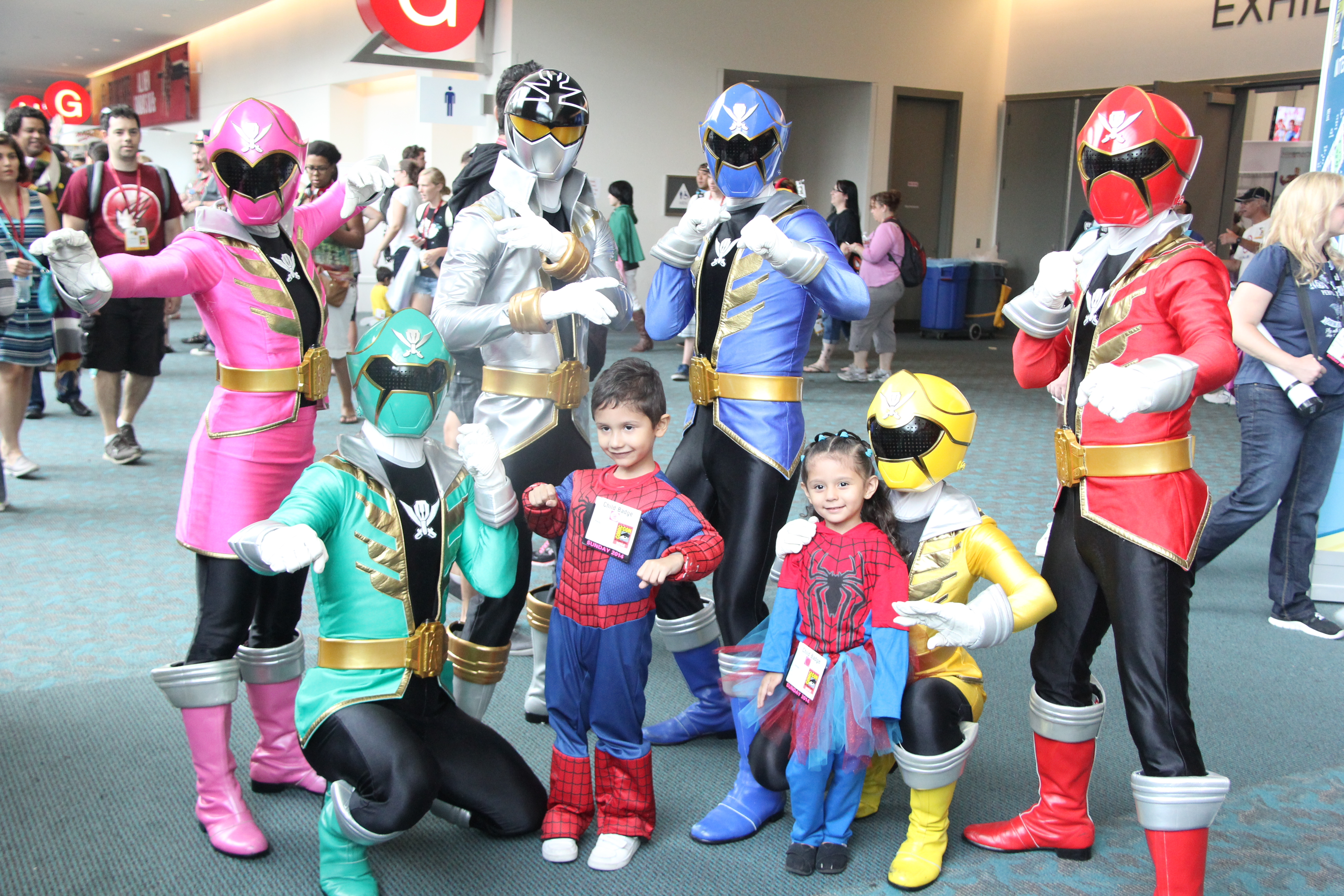 The Power Rangers from Super Megaforce posing with kids Cosplay at San Diego Comic-Con (SDCC 2014).